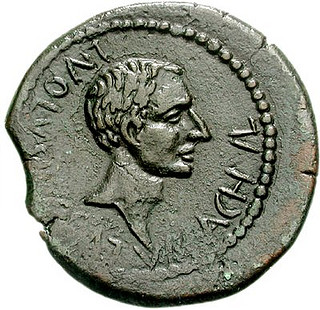 BYZACIUM, Achulla. Augustus, with Caius and Lucius Caesars. 27 BC-AD 14. Æ “Dupondius” (32mm, 13.77 g, 3h). L. Volusius Saturninus, proconsul. Struck 7/6 BC. AVG • PONT • MAX (NT ligate), C • L • below, bare head of Augustus left; to left, bare head of Caius Caesar right; to right, bare head of Lucius Caesar to left / L VOLVSIVS SATVR ACHVL, bare head of L. Volusius Saturninus right. RPC I 800.4 (this coin; illustrated); MAA 60; Müller, Afrique 9; SNG Copenhagen 50.